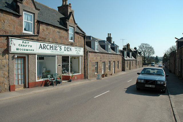 High Street, Archiestown, near to Archiestown, Moray, Great Britain. Part of a planned village of weaver's houses, built by Archibald Grant of Monymusk in the 1760s.